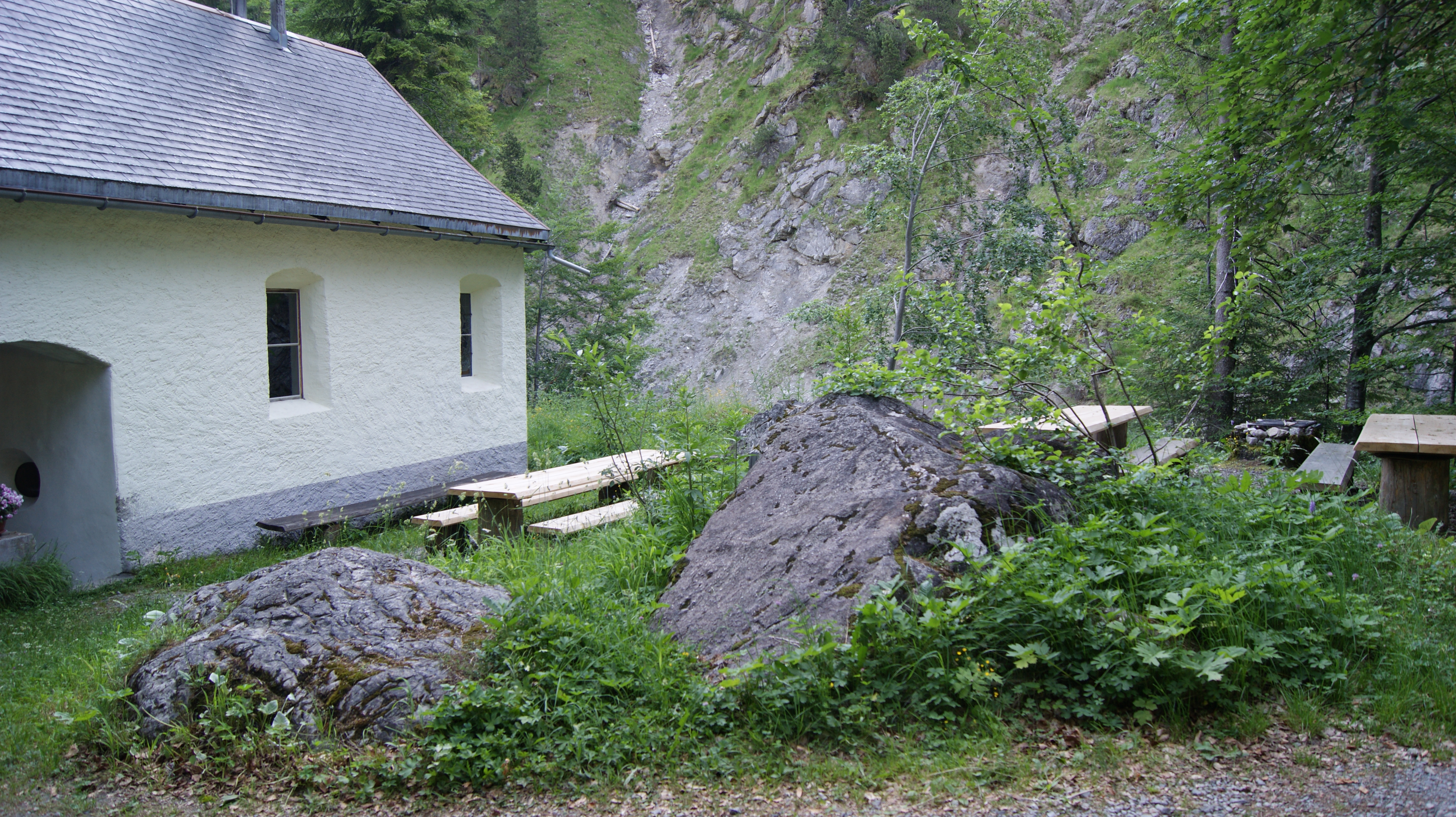 Erratic blocks out of Gneiss in the municipality of Nenzing (Vorarlberg, Austria), plot Kühbruck in the Mengschlucht (gorge) directly at the Gaperdonaweg (street). This media shows the natural monument in Vorarlberg with the ID 25.